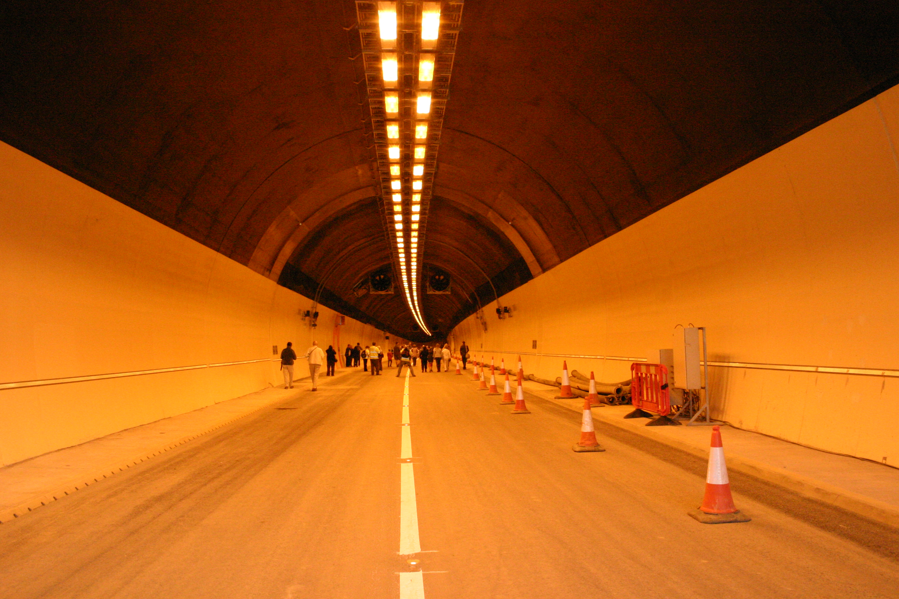 Hindhead Tunnel A3 Open Day 14th May 2011 Northbound Bore